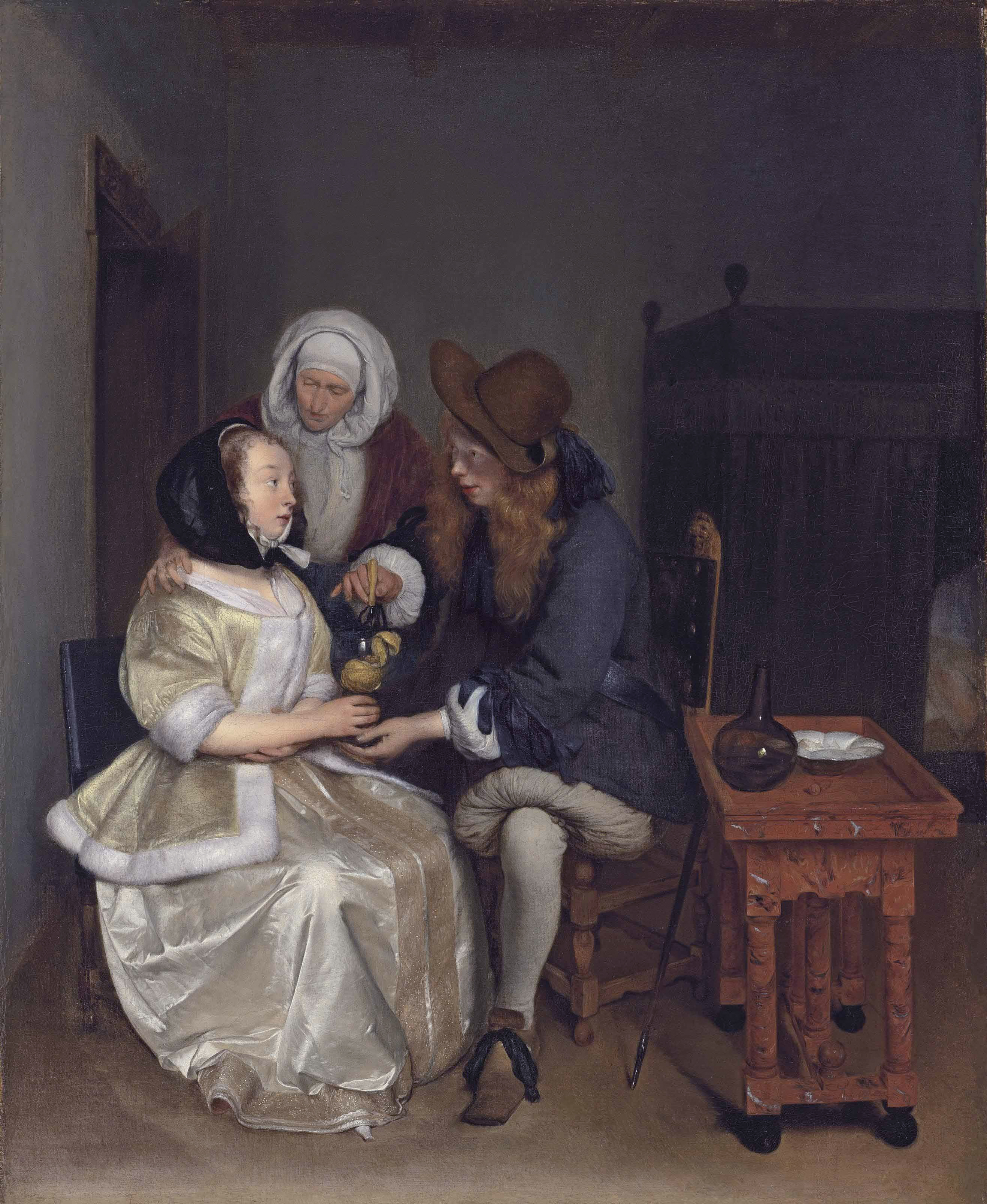 The Glass of Lemonade seamlessly joins a domestic subject, a finely appointed interior and restrained erotic tension, the very qualities that made Ter Borch's paintings strikingly modern--and appealing--to his contemporaries. Known for his portraits and scenes of military life, Ter Borch was at his most innovative in depictions of the daily life of women in spare yet elegant surroundings. In such pictures, Ter Borch cultivated moments of emotional and psychological disquiet whose narrative subtlety invites countless interpretations. The present work embodies exactly this complexity. In the scene, a couple sits together, a man stirring a cut and partly peeled lemon into a glass of water held by a young woman. Between them stands an older woman, her hand placed on the young woman's shoulder in a gesture of apparent reassurance.